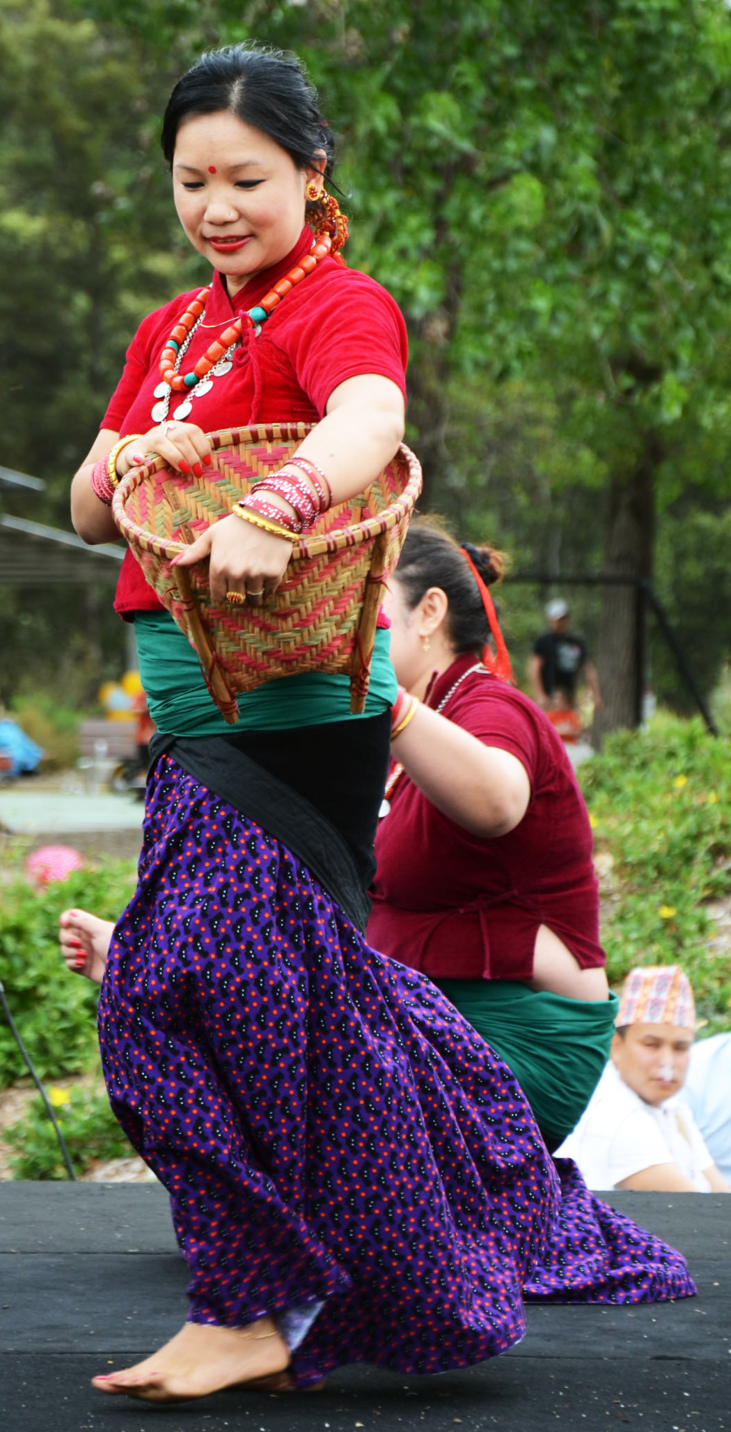 The photo is about a Magar woman dancing in traditional costume carrying traditional bamboo basket during the festival of Maghe Sakranti in Sydney.